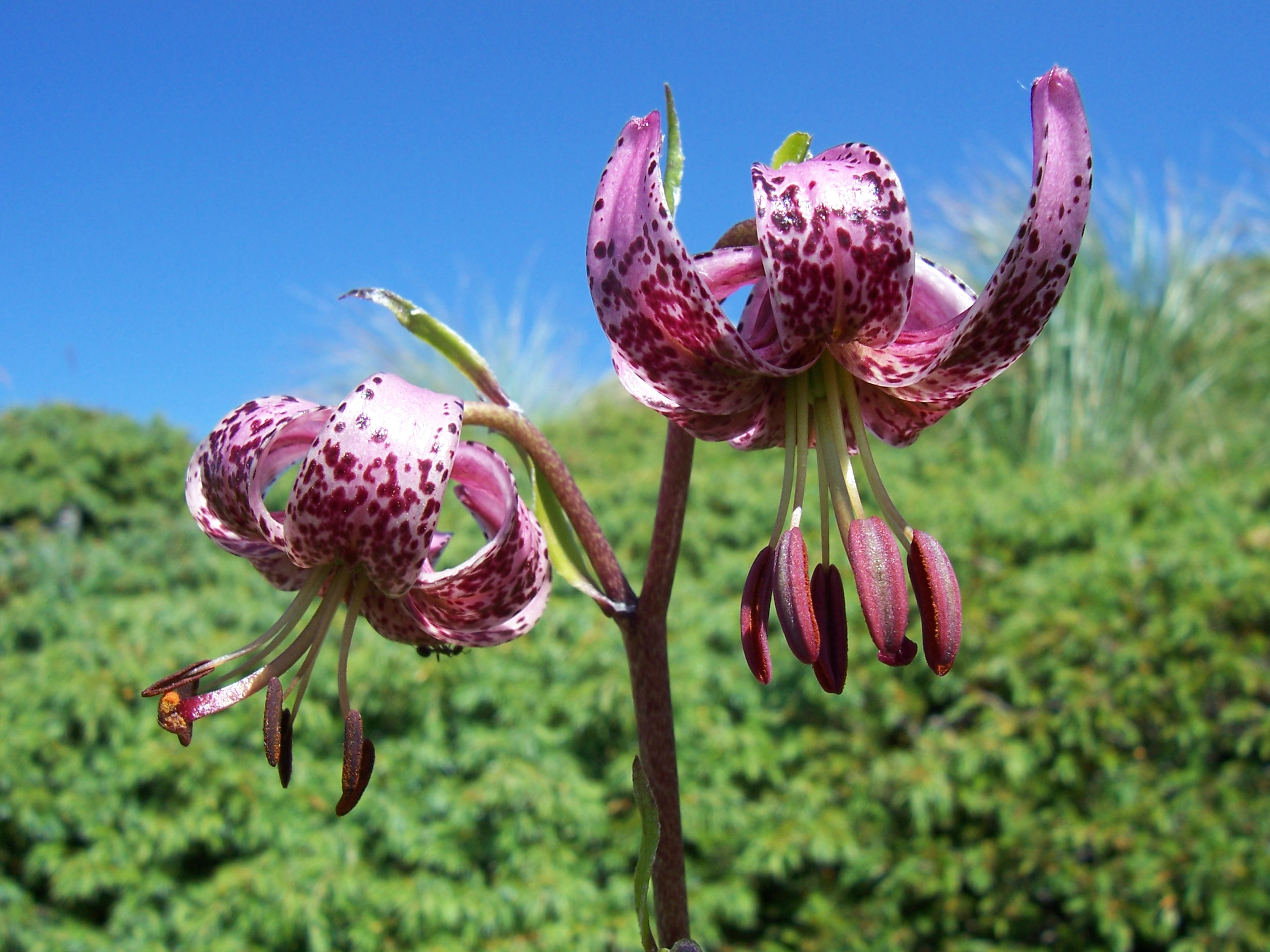 Lilium Martagon on Mount "Rondinaio" - Apennine Mountains - Italy